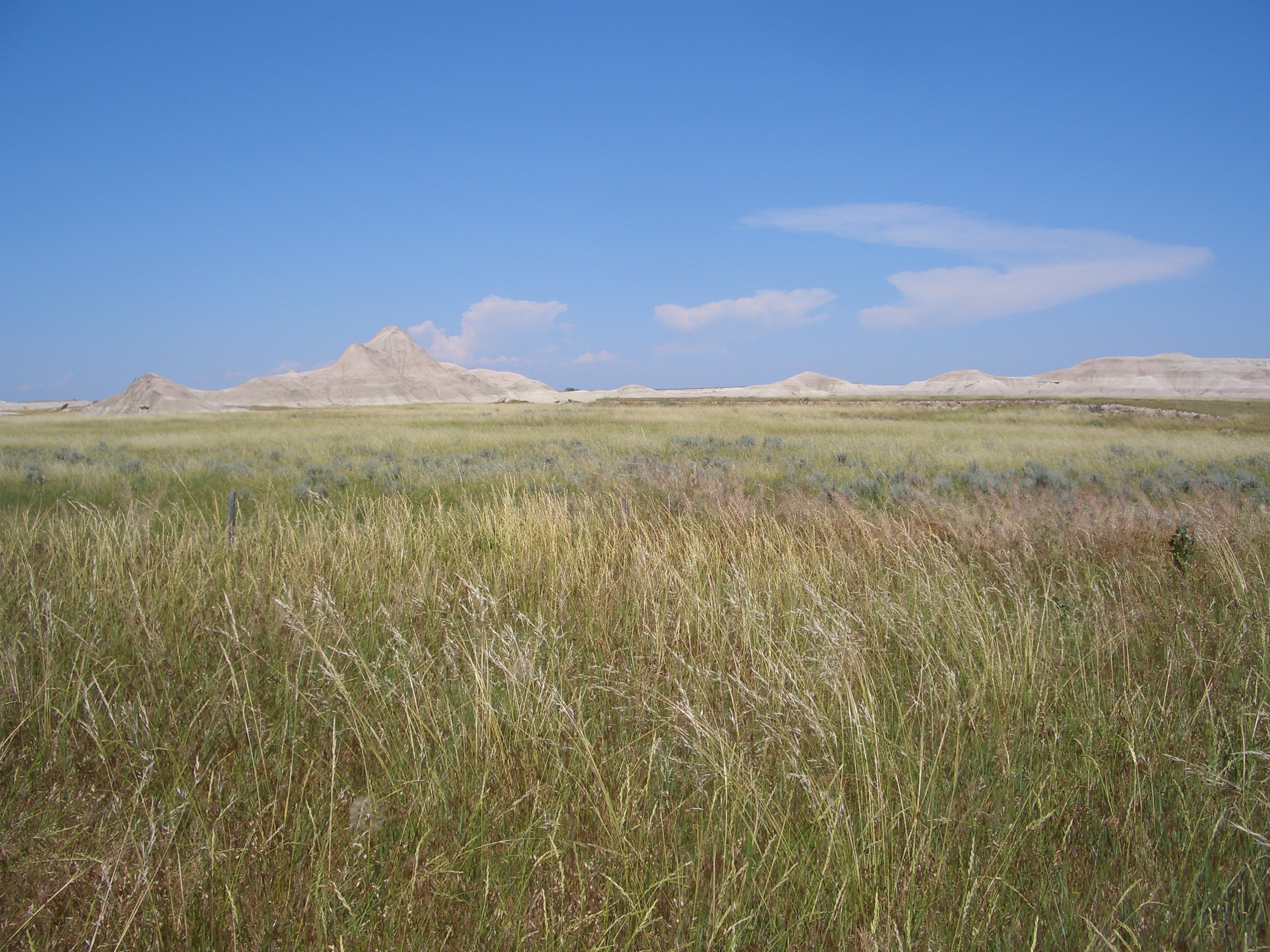 Oglala National Grassland, Nebraska, USA, near Toadstool Geologic Park.